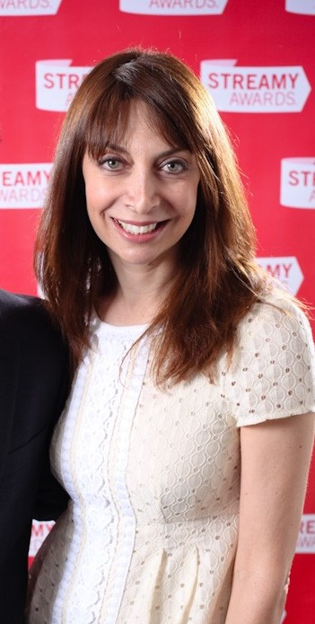 Ileana Douglas at the 2009 Streamy awards